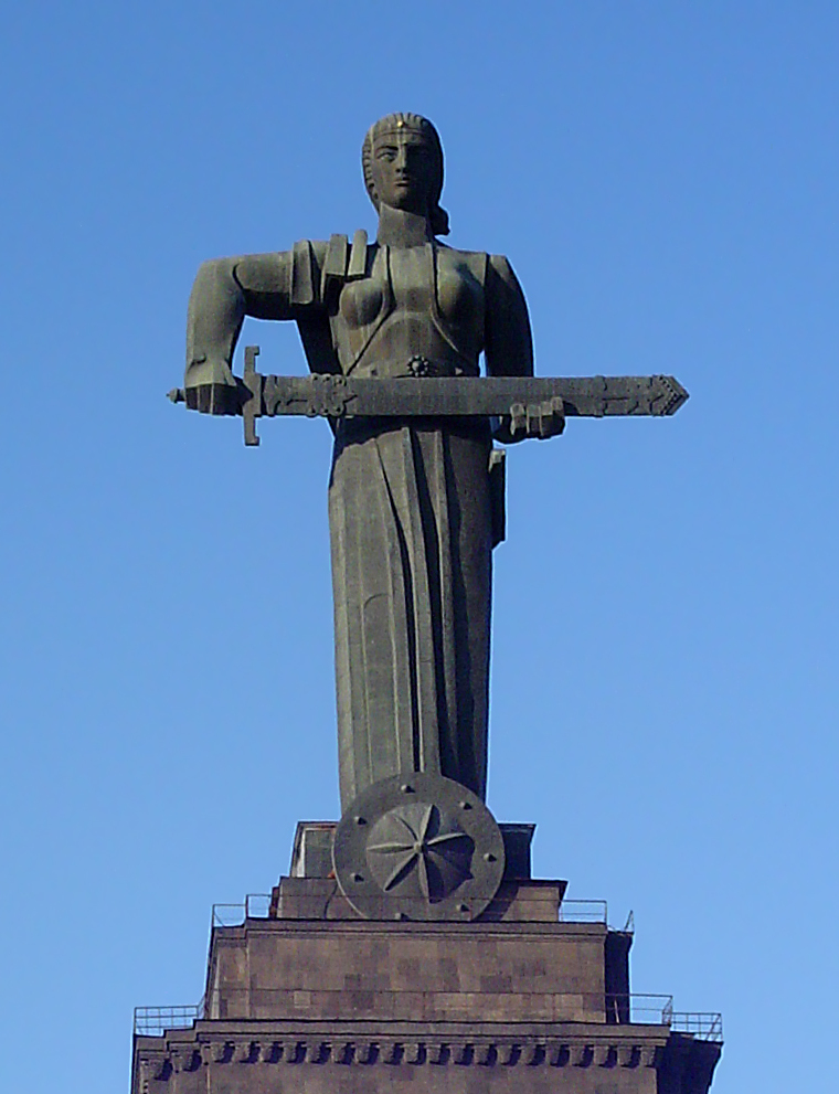 Mother Armenia and the Military Museum